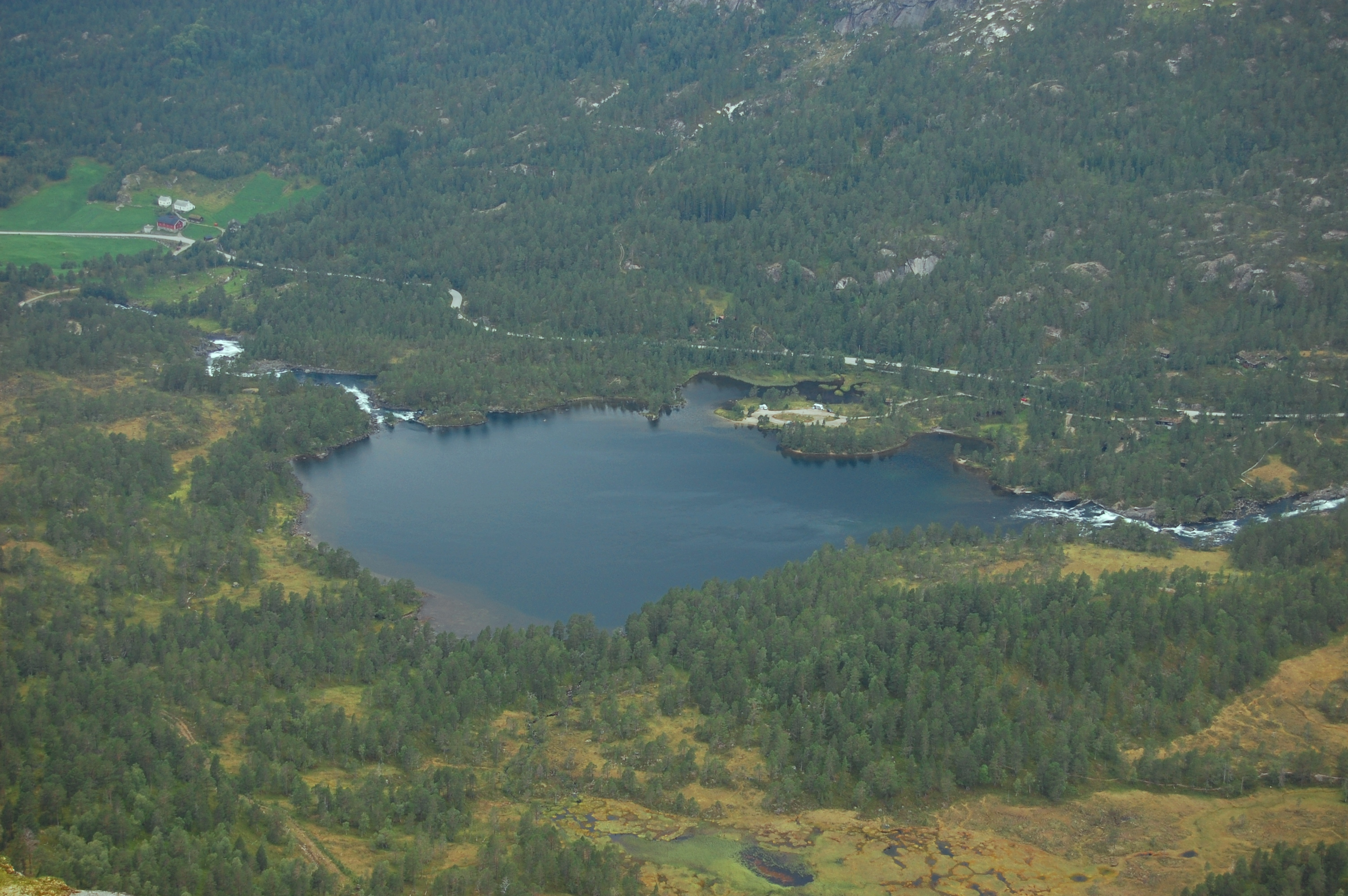 The lake Litlevatnet in Gaular municipality in Sogn og Fjordane county in Norway.